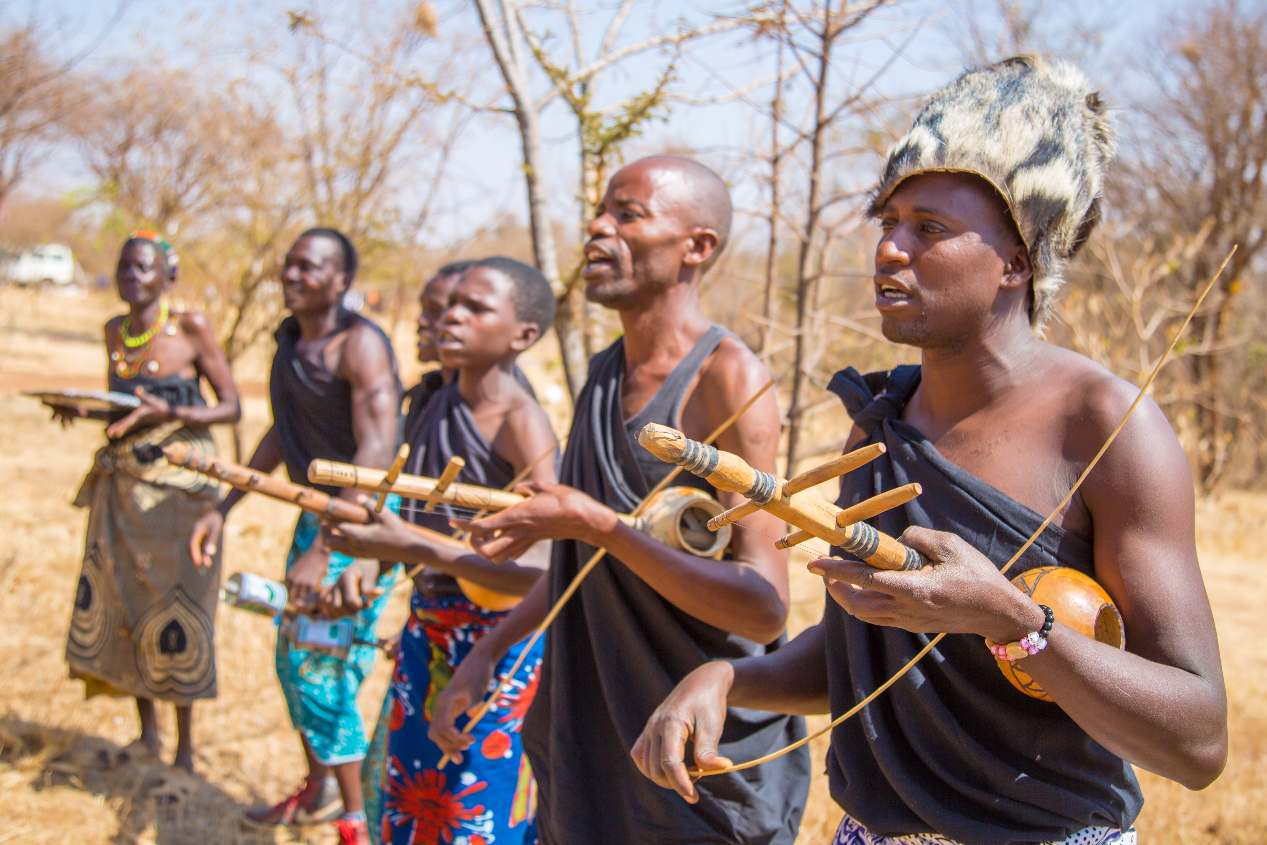 This is an image from Tanzania